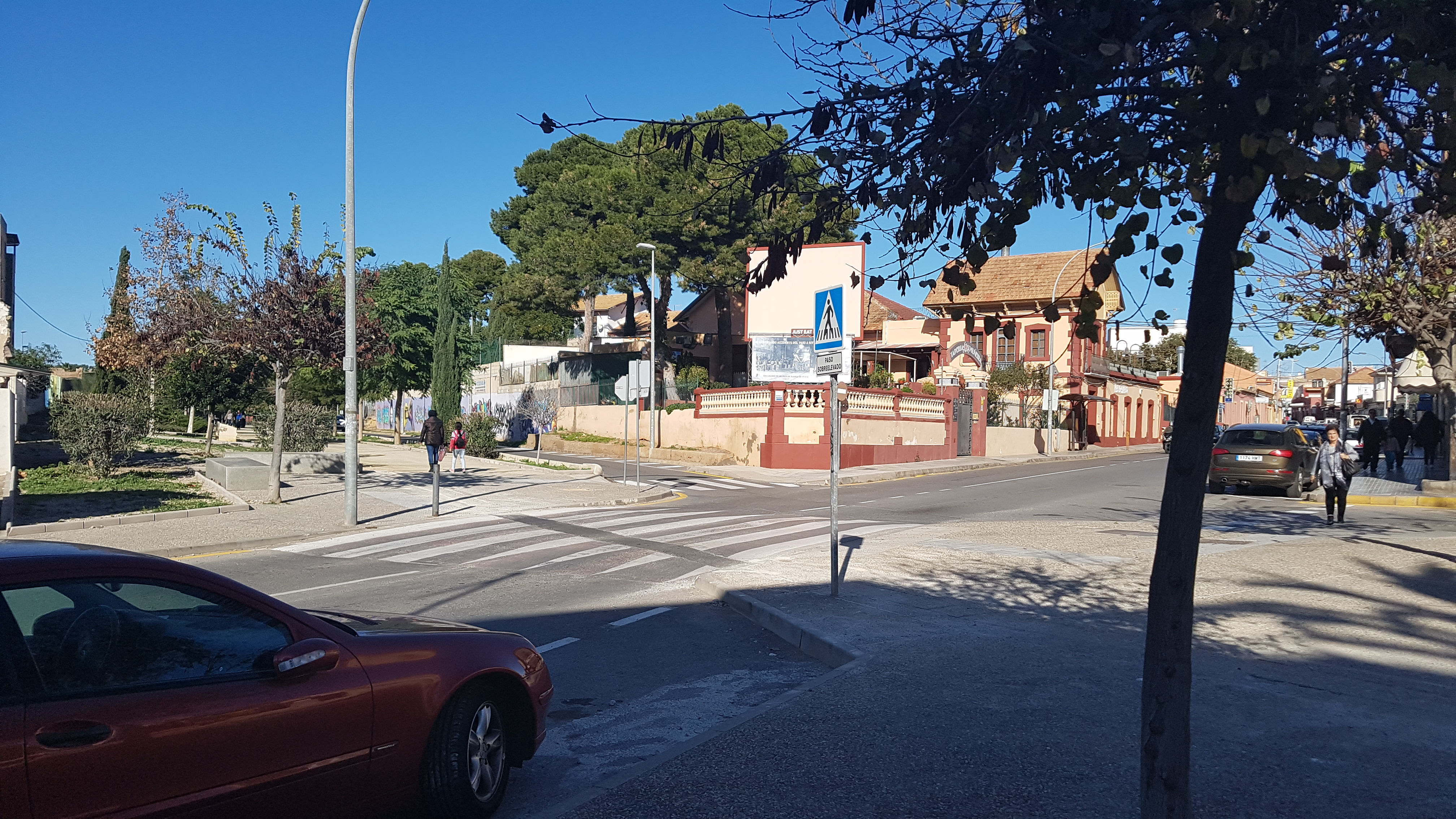 Calle del Submarino of Barrio de Peral, in the Spanish city of Cartagena (Region of Murcia). In this place, where a level crossing was until 1998, the 1979 Cartagena rail accident took place.